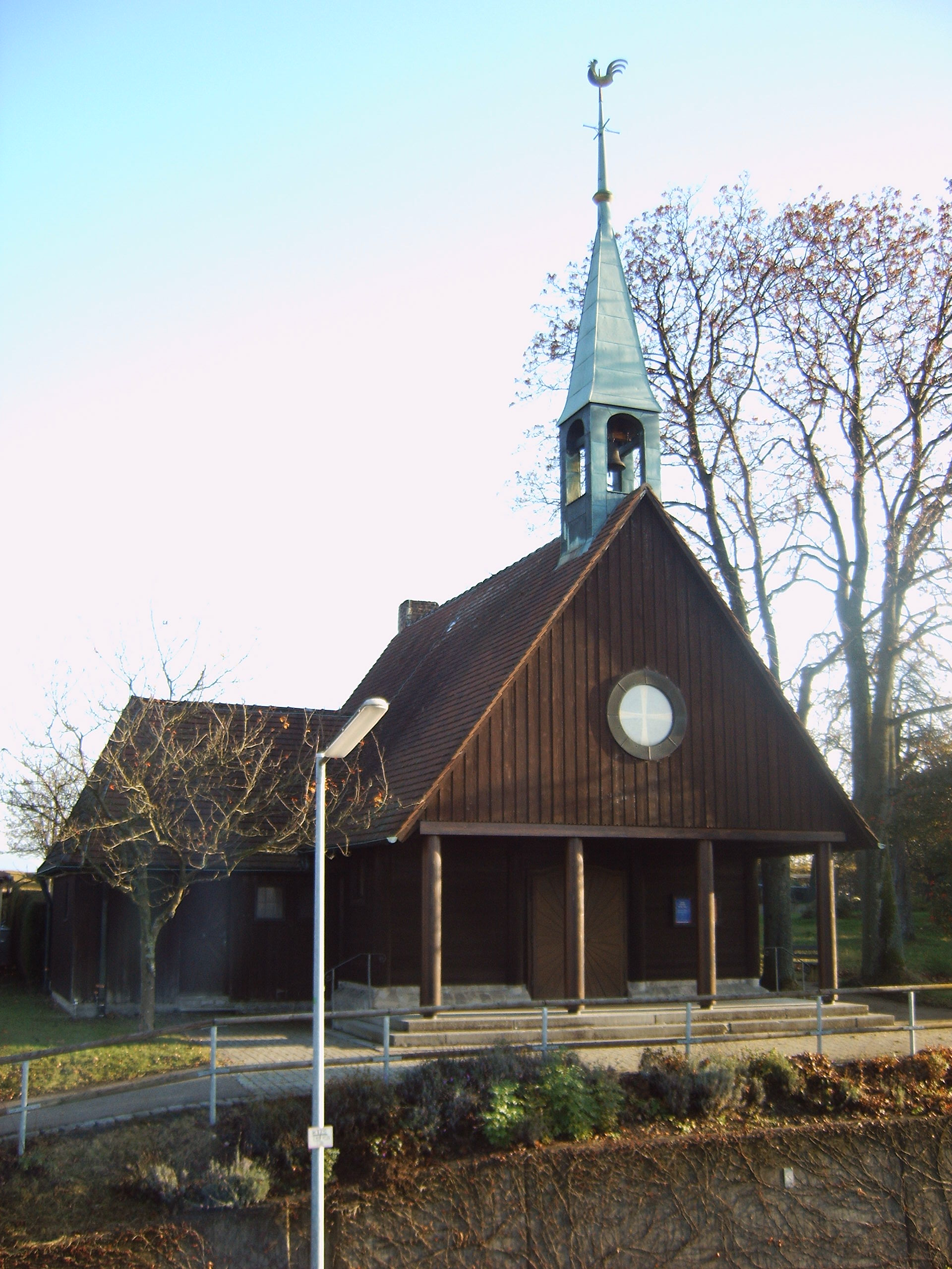 Rattenharz church, Lorch